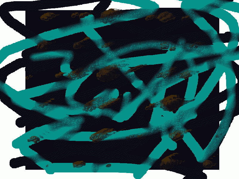 Action painting in the manner of Jackson Pollock Fabrication d'une illustration car pb copyright en France pour les œuvres modernes. sel made PRA